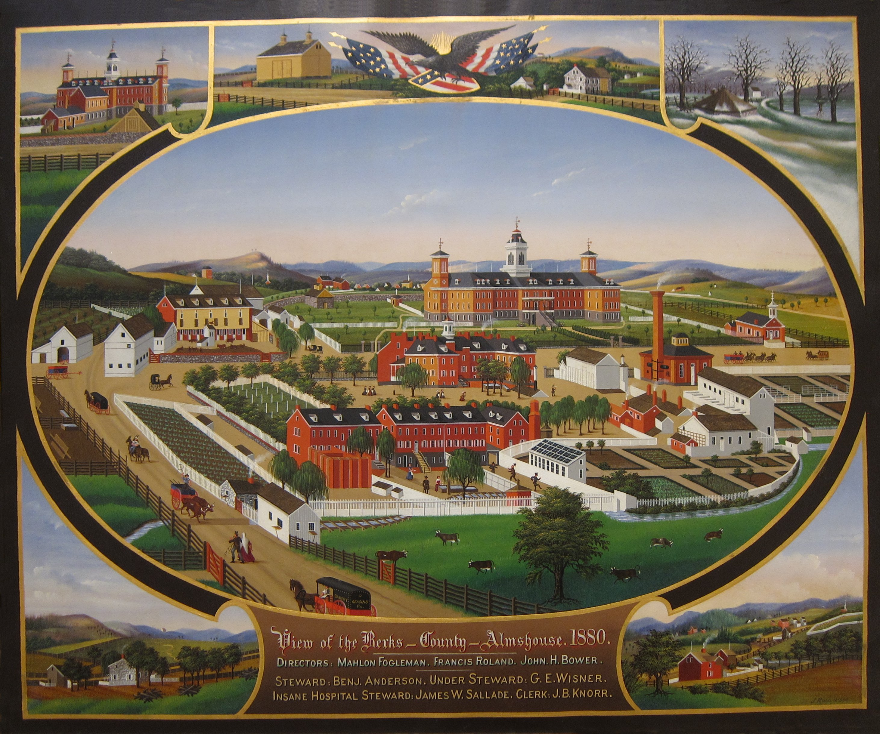 View of the Berks County Almshouse by John Rasmussen, 1880, oil and gold paint on zinc, Metropolitan Museum of Art, accession 66.242.22